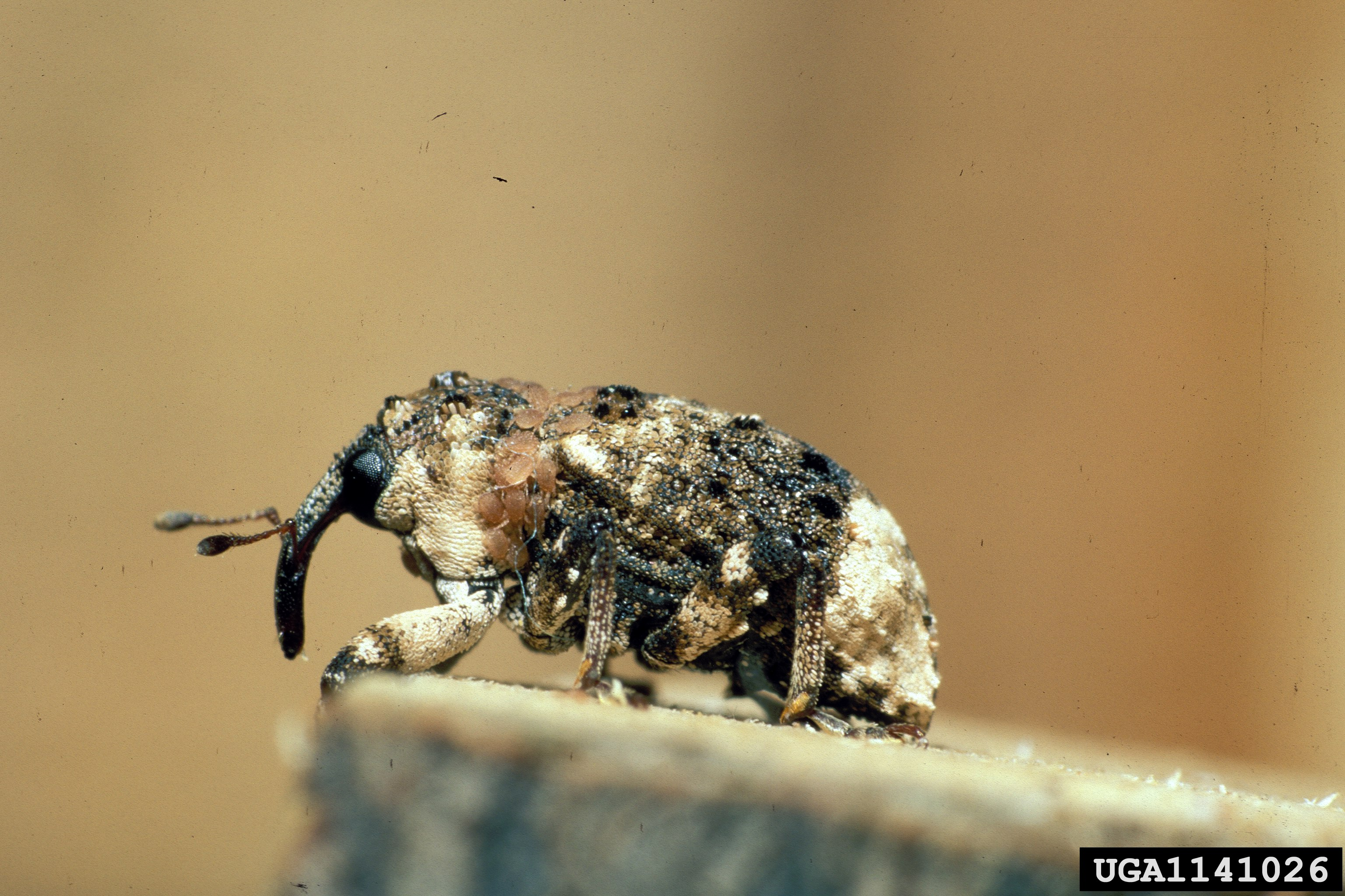 Poplar-and-willow borer, adult exemplar in Hungary.